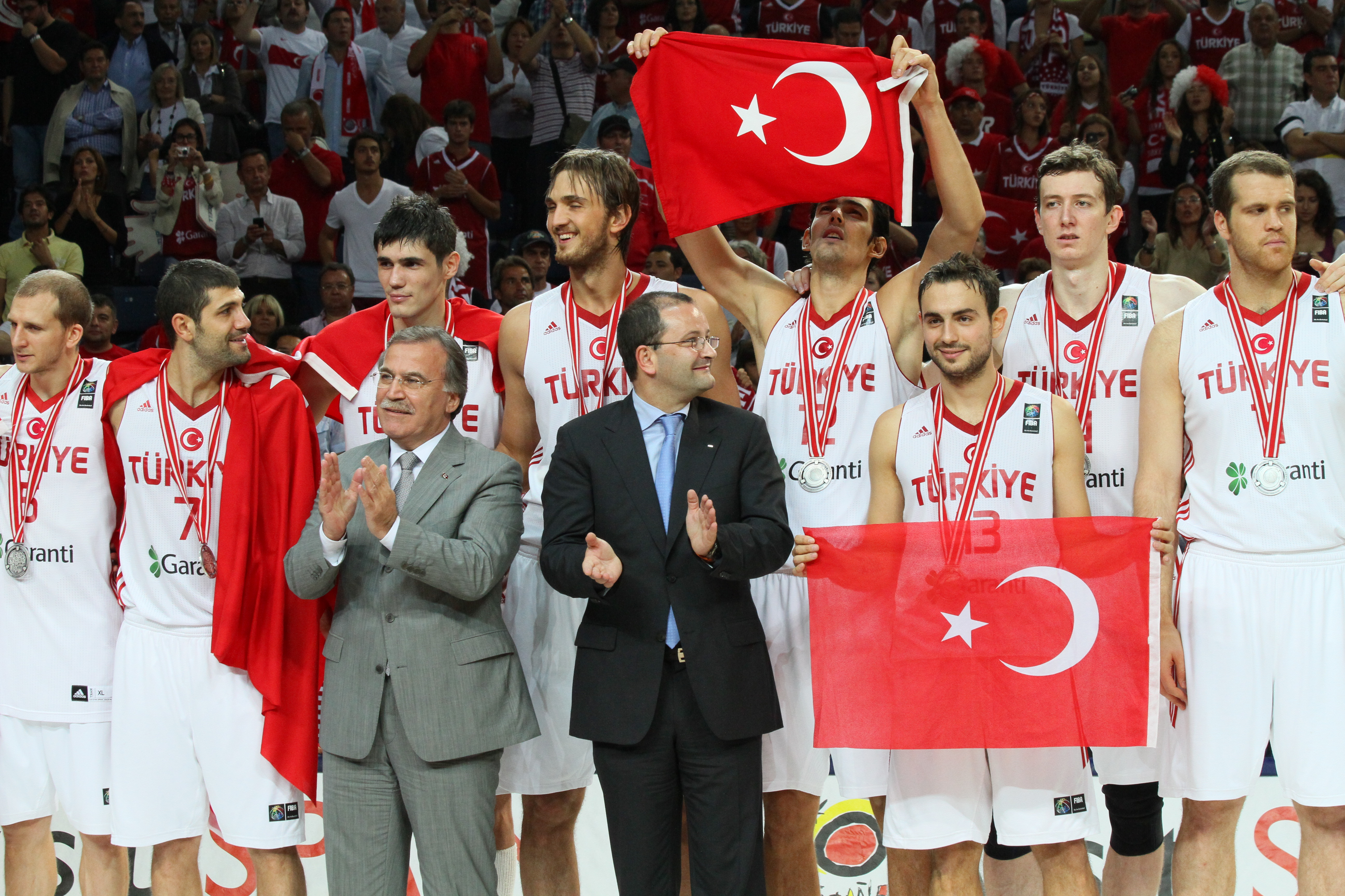 Basketballplayers: Jersey-No. #5 Sinan Güler, #7 Ömer Onan, #8 Ersan İlyasova, #9 Semih Erden, #12 Kerem Gönlüm, #13 Ender Arslan, #14 Ömer Aşık, #11 Oğuz Savaş.